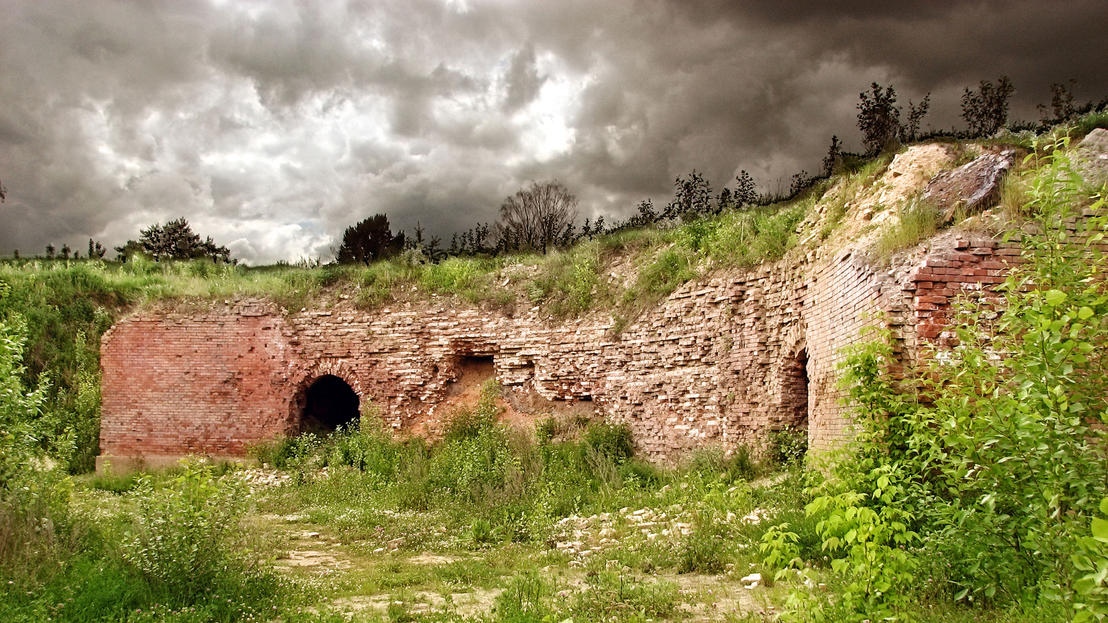 Беларуская (тарашкевіца): Крэпасць. г. Бабруйск This is a photo of Belarusian heritage monument. Reference number: 512Г000059 ( WLM)